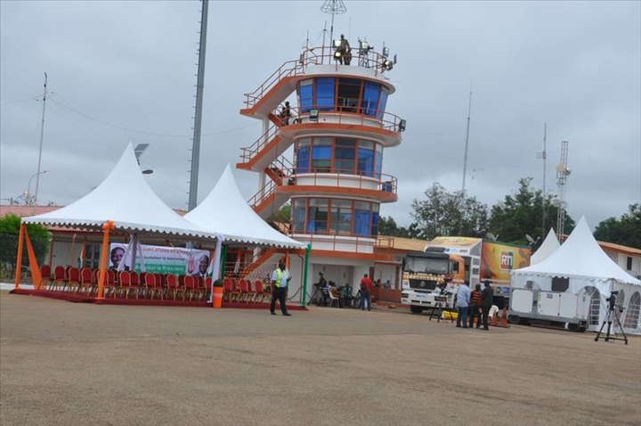 Aéroport_de_Bouaké,Côte d'Ivoire